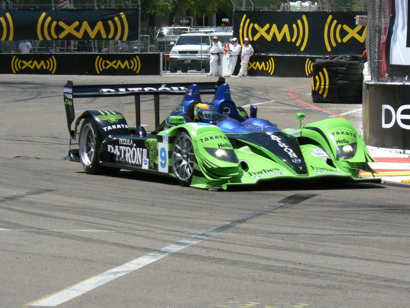 Patron Highcroft Racing's Acura ARX-01B